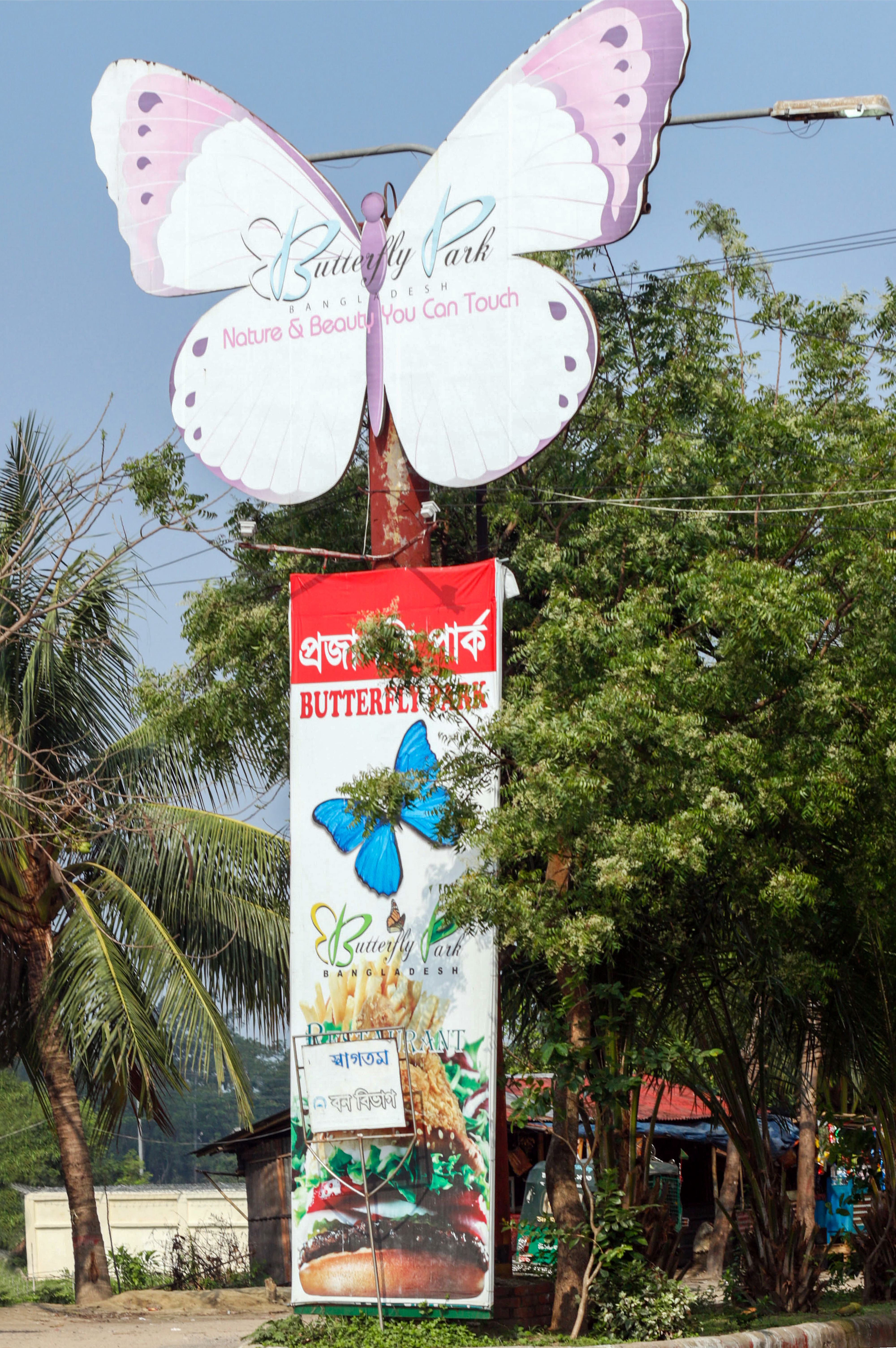 Welcome sign in Butterfly Park Bangladesh, Chittagong